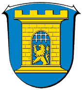 Coat of Arms of Dillenburg